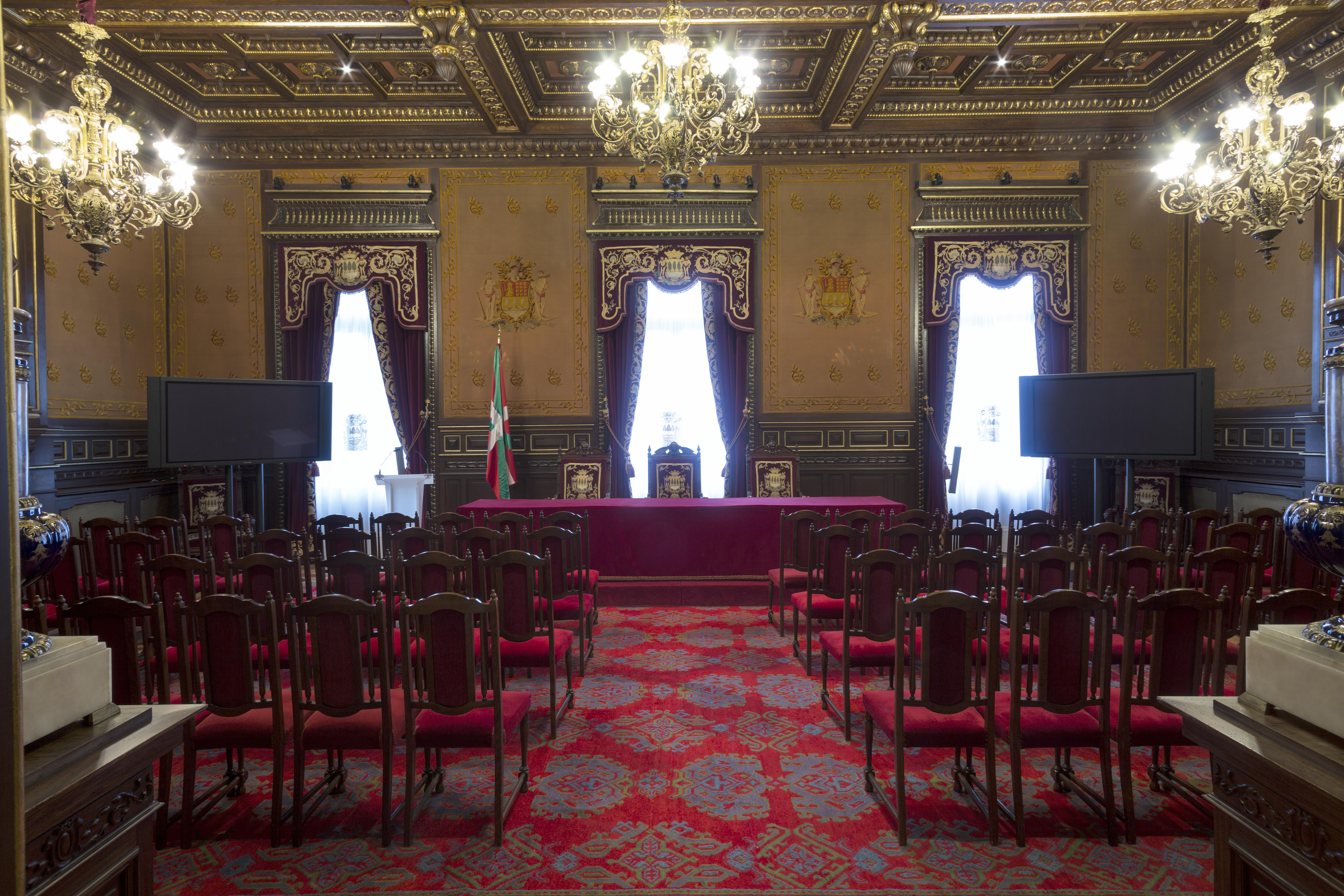 Main room